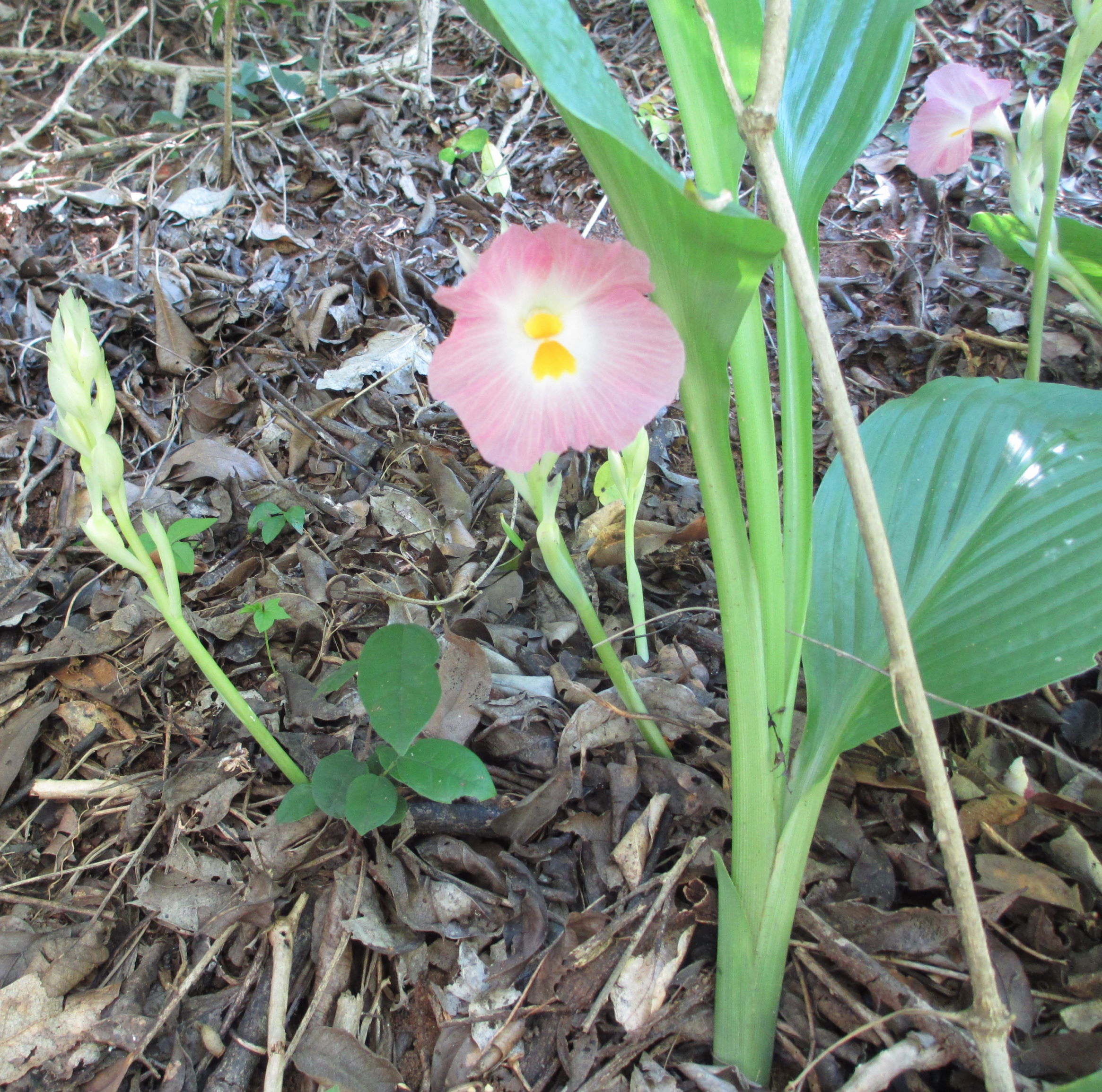 A wild member of the ginger family (Zingiberaceae).